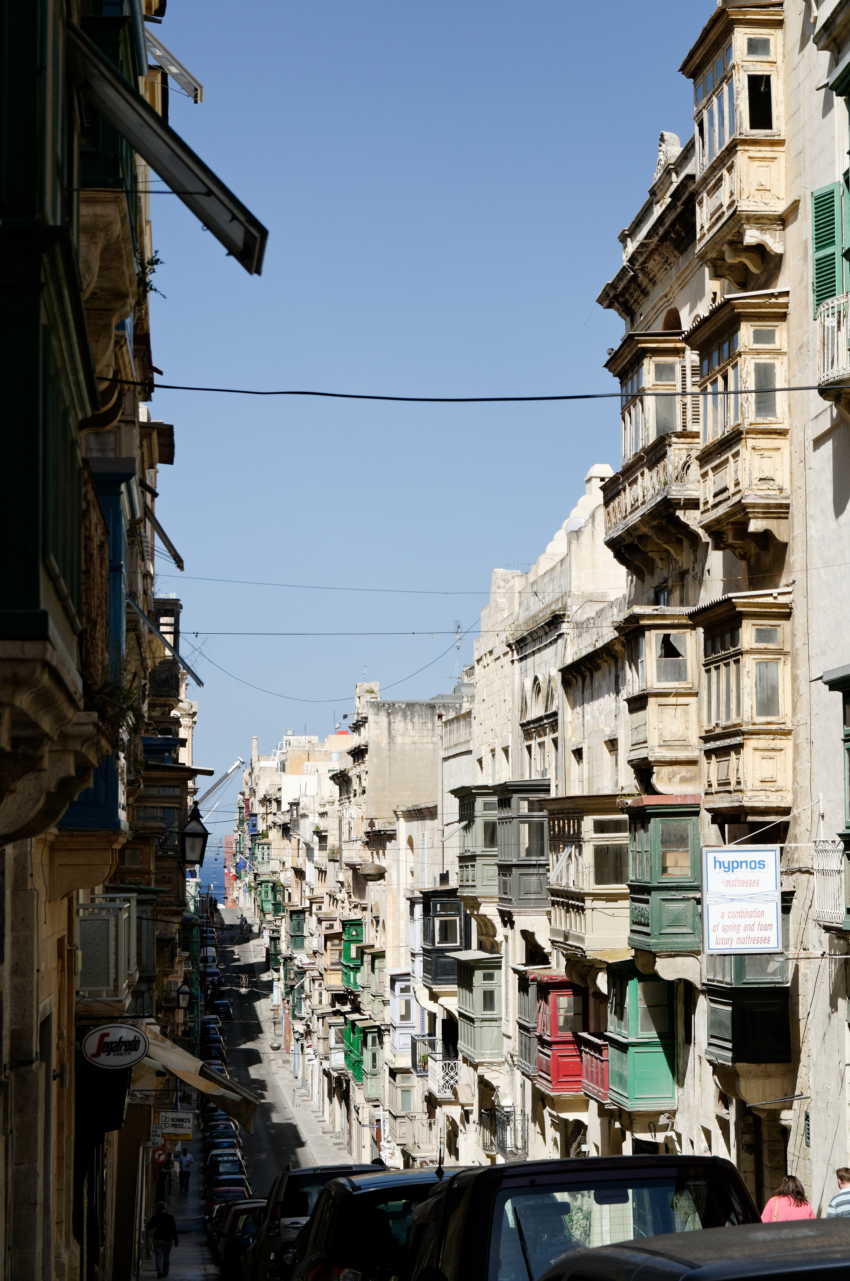 St Paul Street, Valletta.